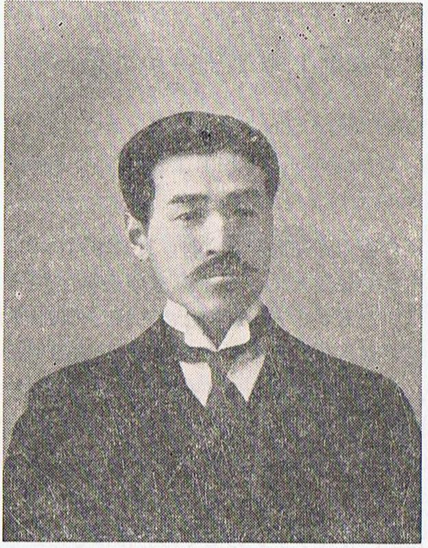 Rev.NAKAYAMA Masaki